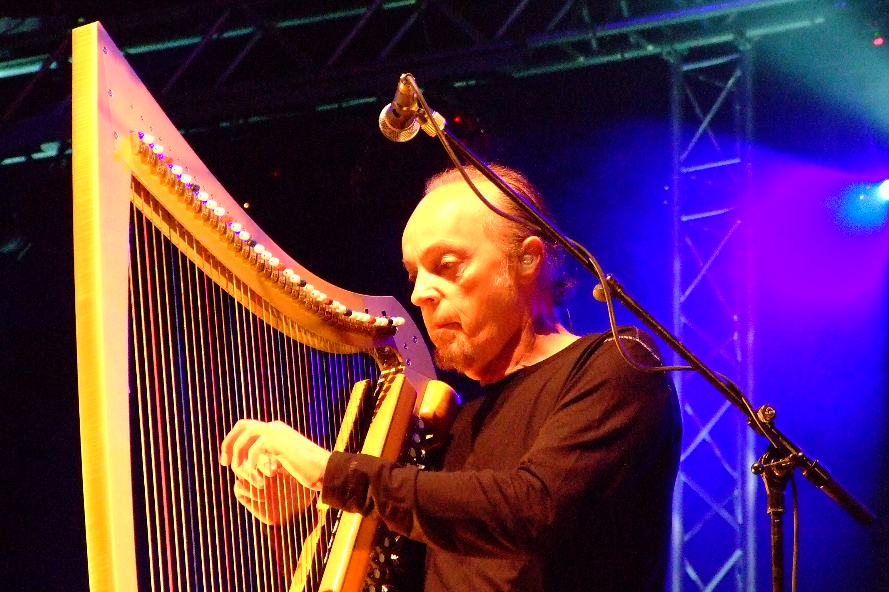 Alan Stivell live at the Bardentreffen in Nuremberg, Germany.